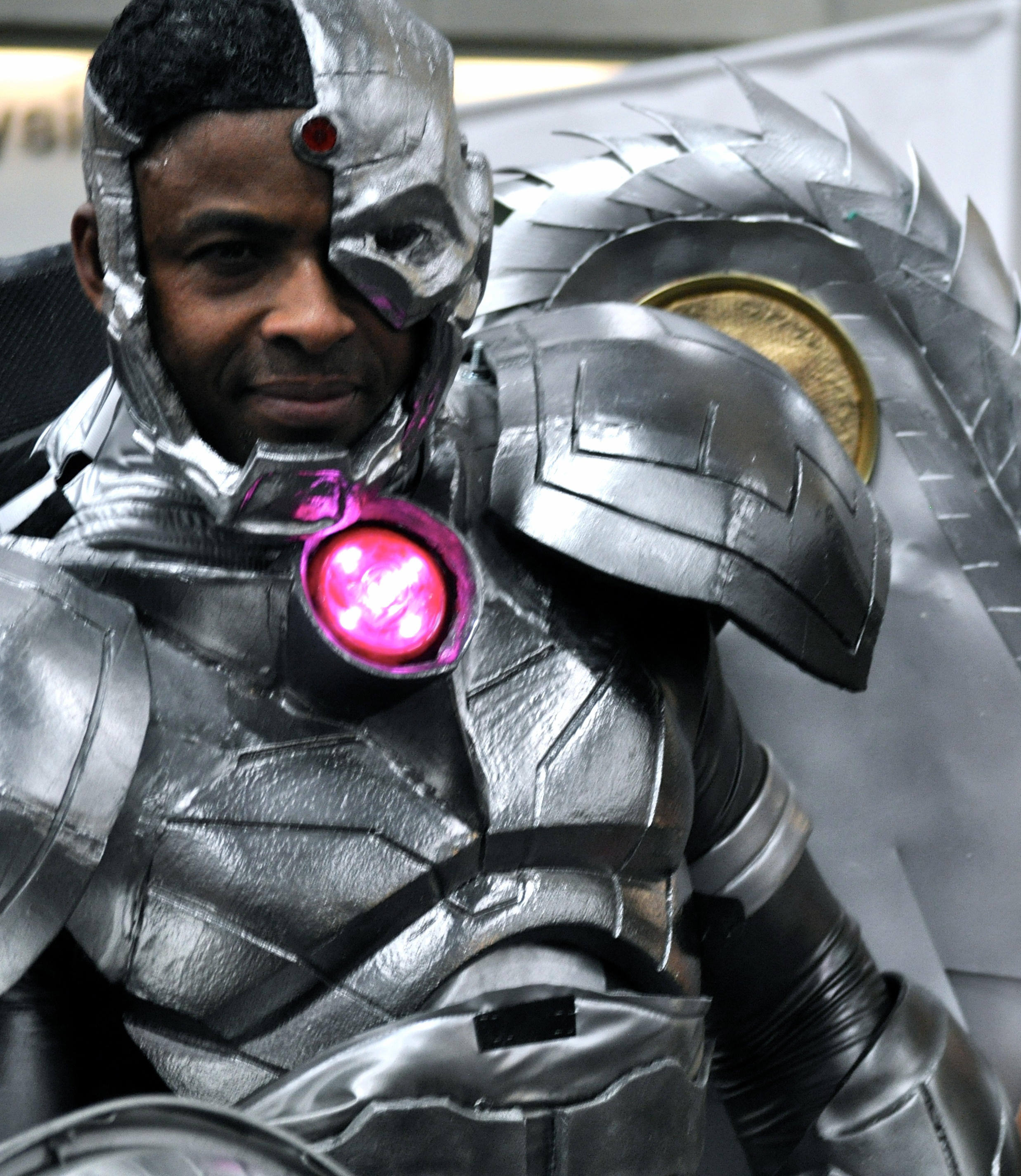 Cosplay at San Diego Comic-Con 2013.